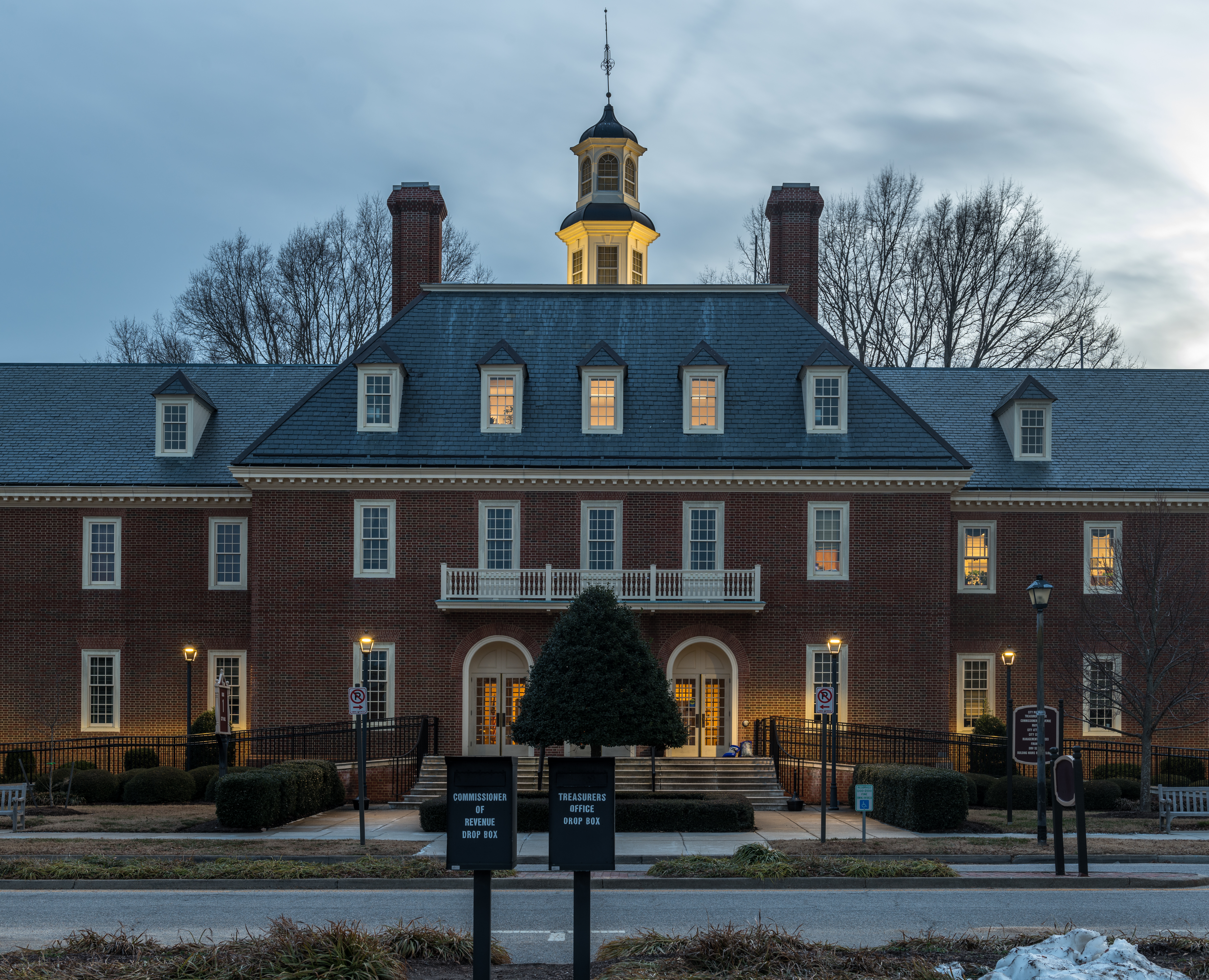 Closeup of City Hall, Building 1 at the Virginia Beach Municipal Center, Virginia Beach, Virginia.